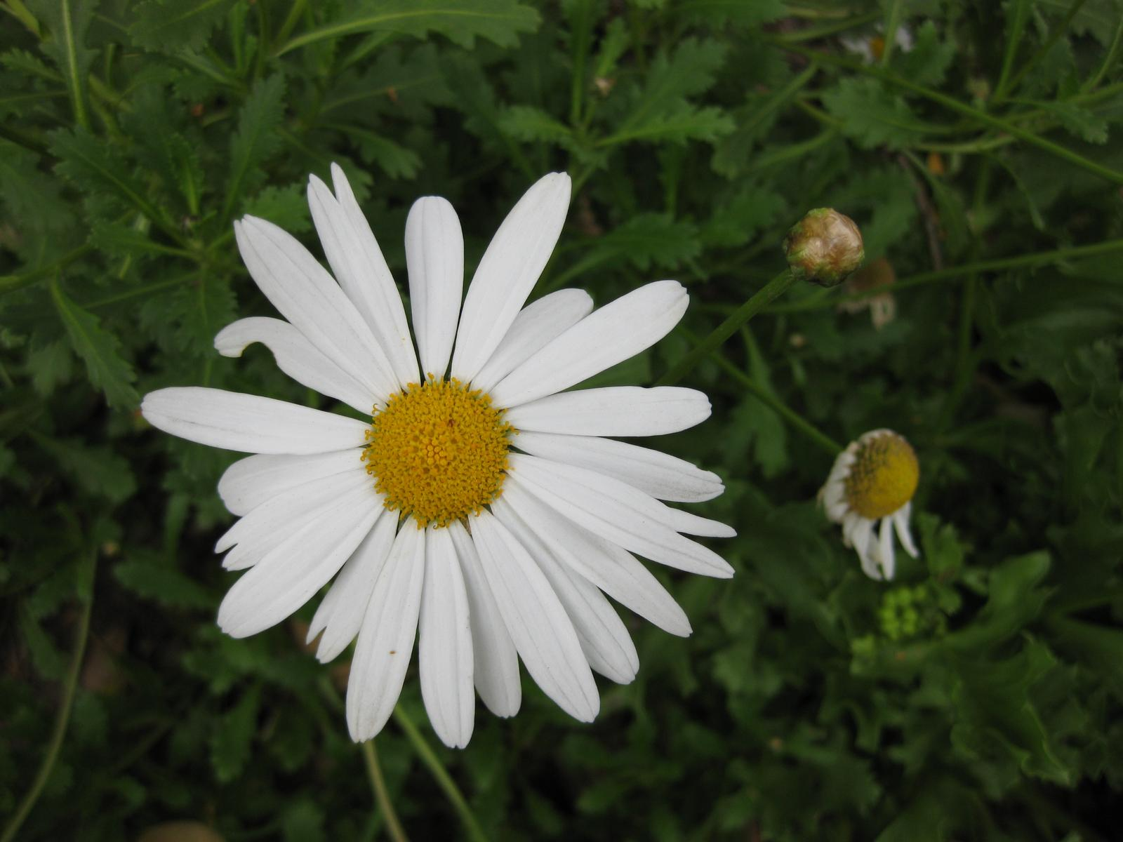 Photographed at Huntington Gardens (Los Angeles) in April